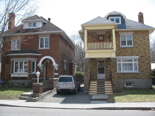 Residential houses at Sandy Hill, Ottawa